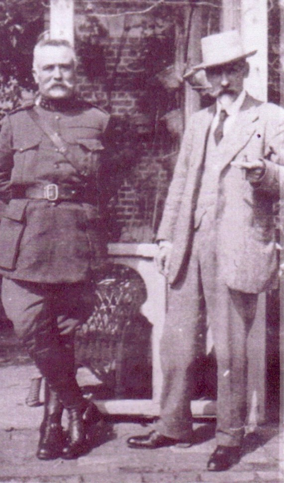 Aloïse Biebuyck and Emile Claus, both from Sint-Eloois-Vijve (Belgium), after World War I